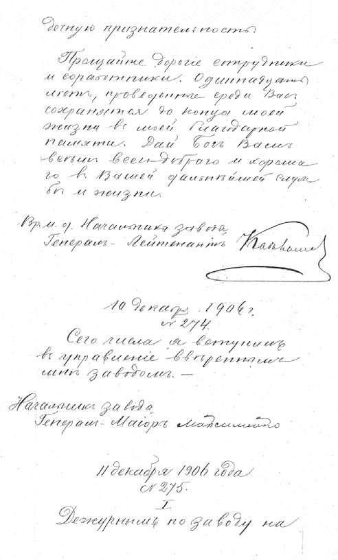 Order #274 by Klavdy Kabalevsky. 1906-10-06.